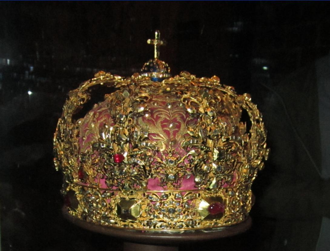 "Crown of Maria Eleanor" of Sweden (has been used as the King's as well as the Queen's crown) as shown to public on National DayPlace: Royal Treasury, Stockholm Palace, Sweden